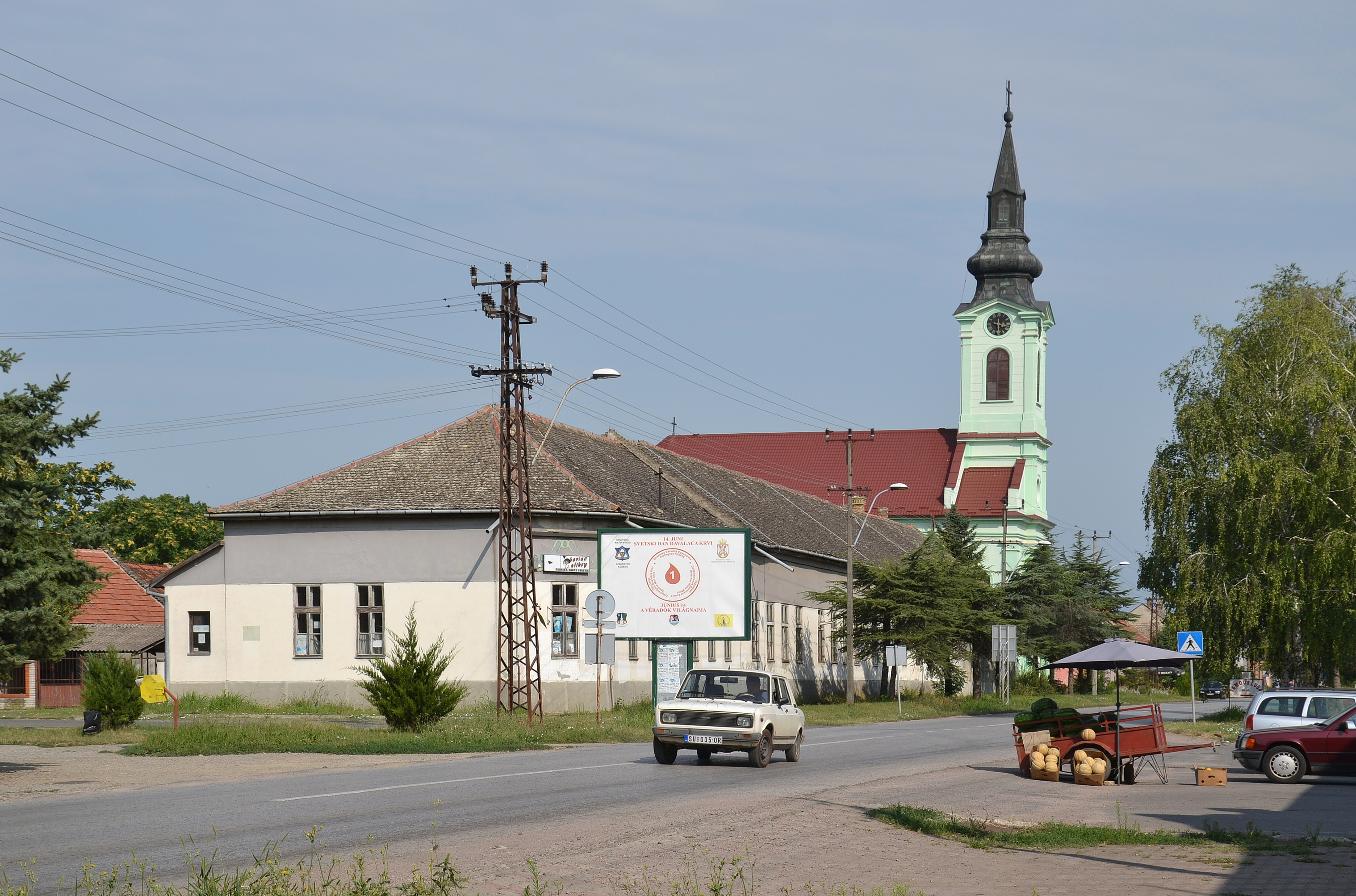 Feketić (Bácsfeketehegy, Feketitsch, Schwarzenberg) - Vojvodina. Main street and Lutheran church